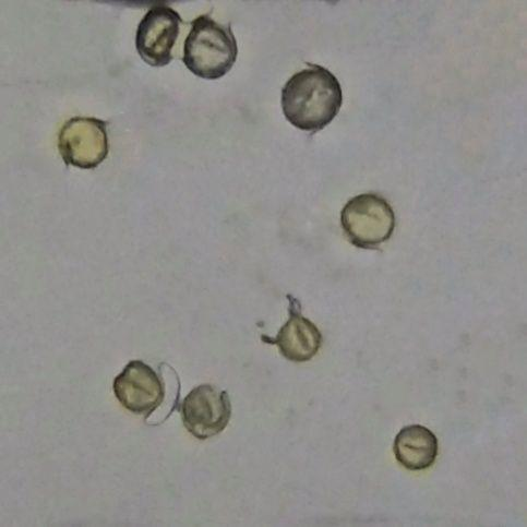 Pollens of Oxalis corniculata